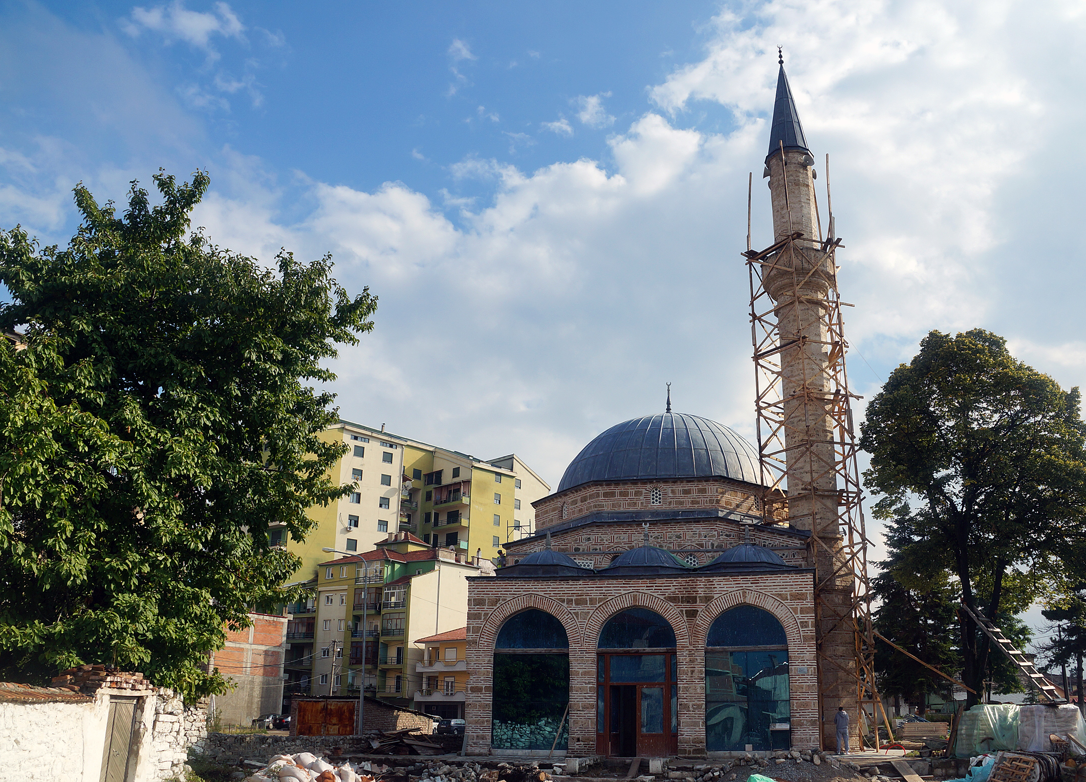 Iljaz Mirahori Mosque in Korça, Albania – construction works in 2013